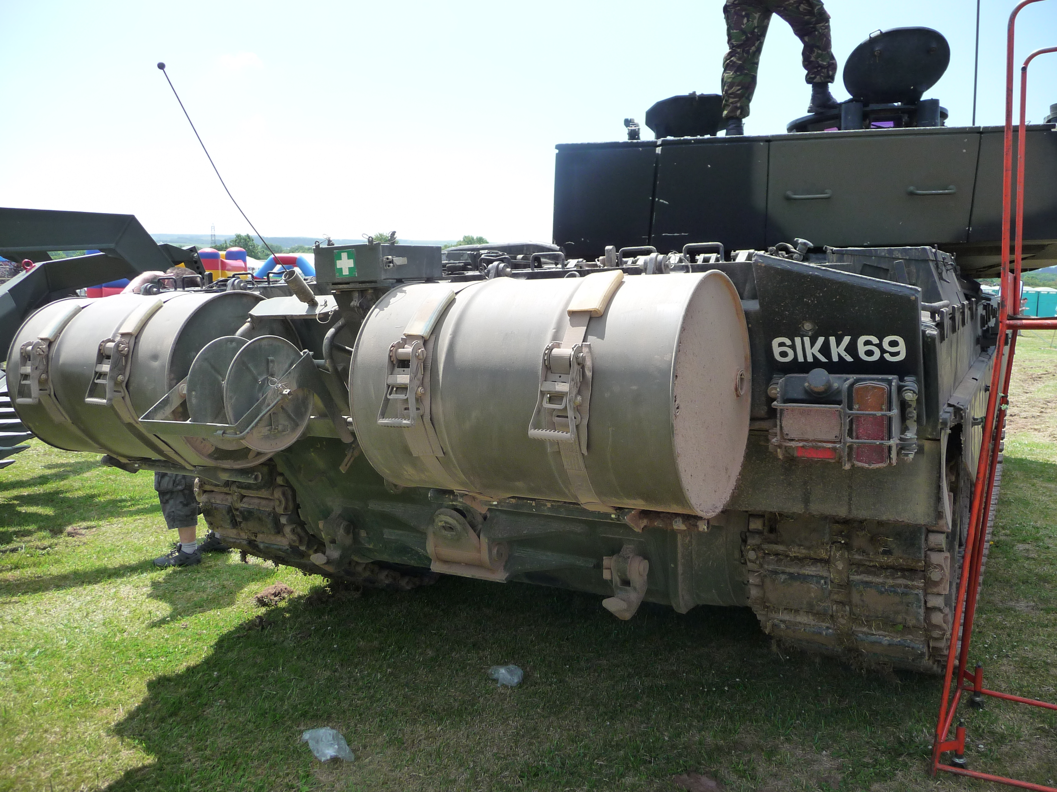 Fuel tanks of a Challenger 2 tank.